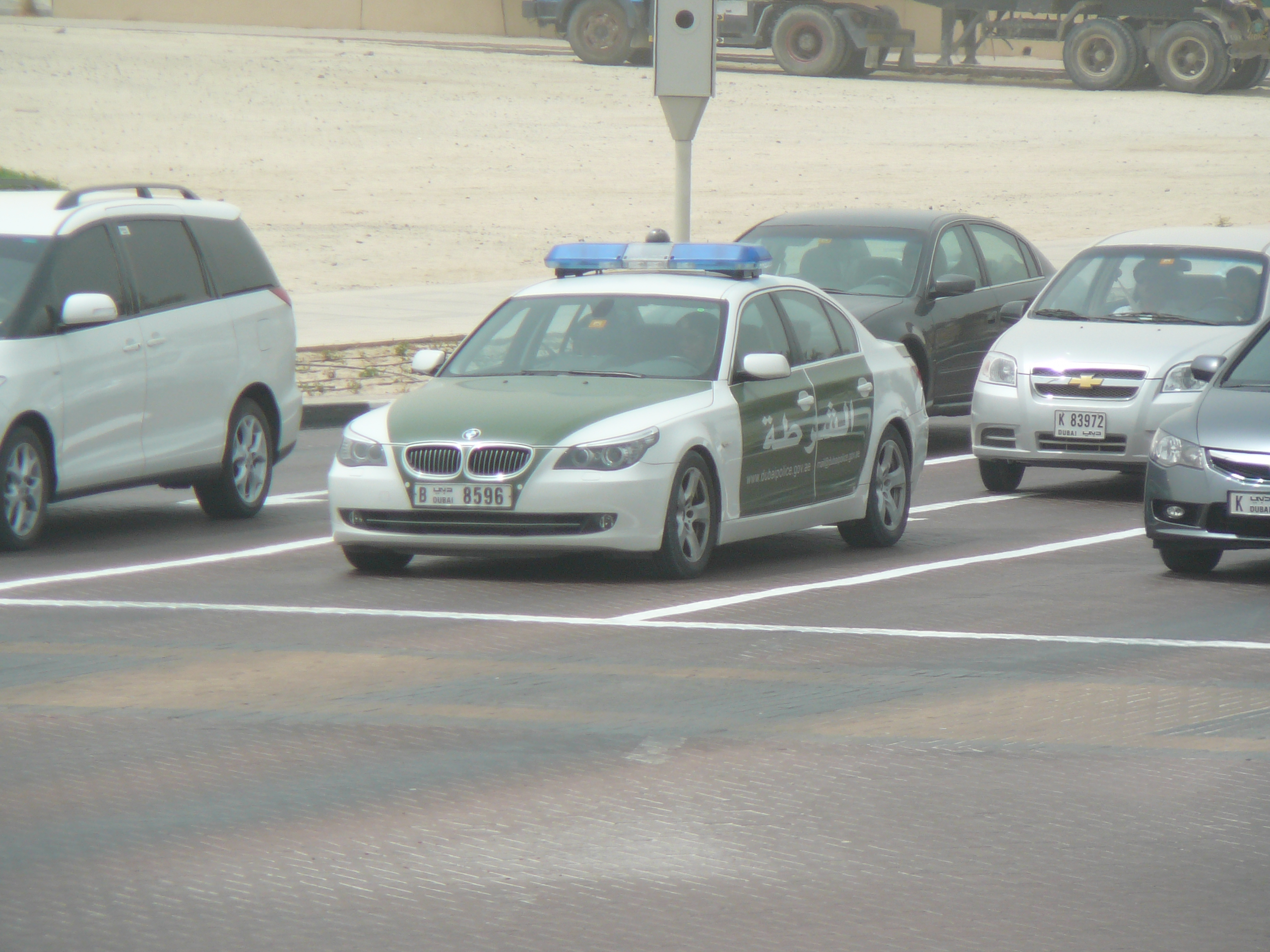 Dubai Police car.